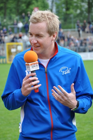 host Uli Pingel hat the charity event "Kicken mit Herz"